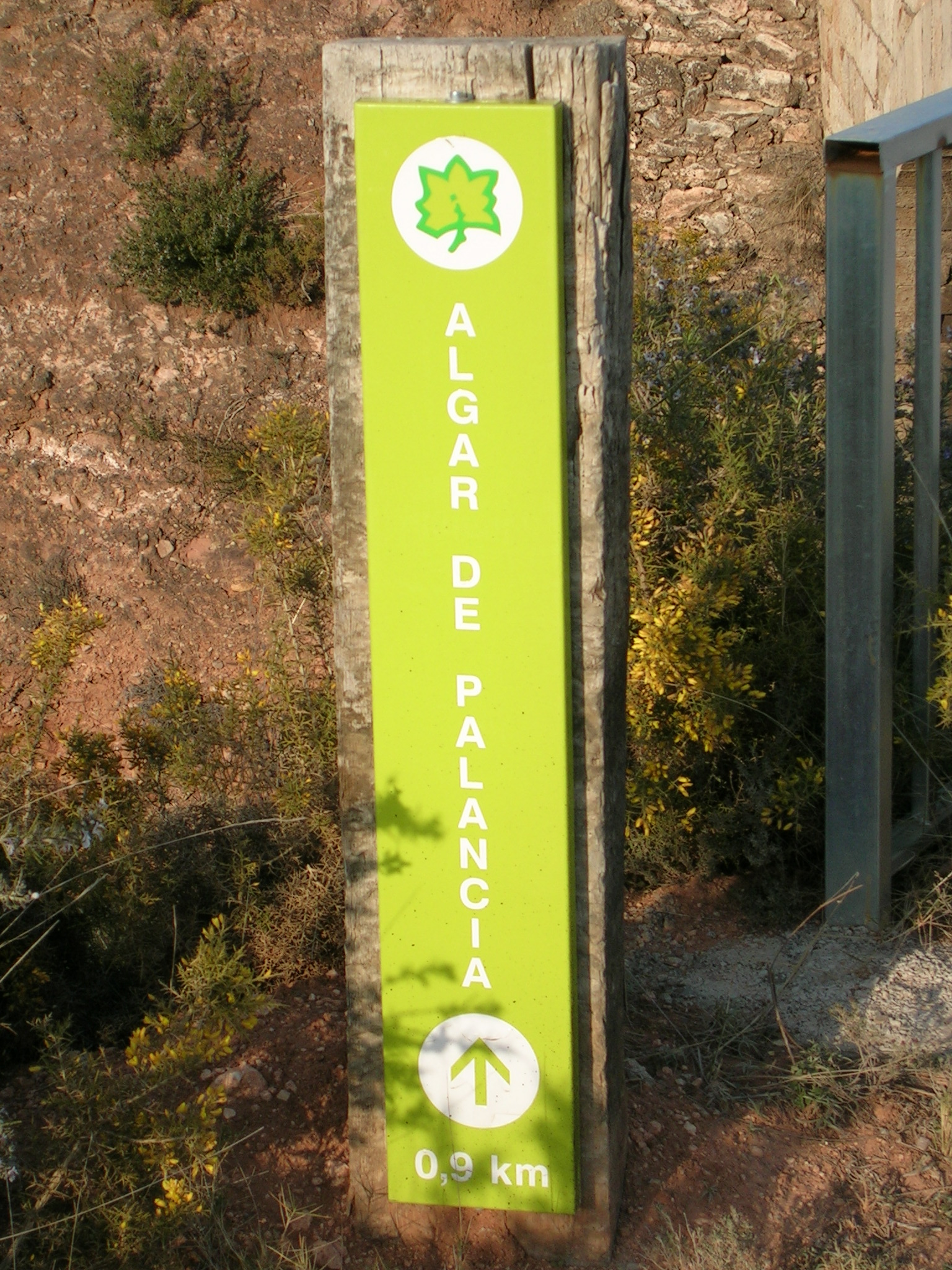 Signal to Algar del Palància in the Ojos Negros trail rail